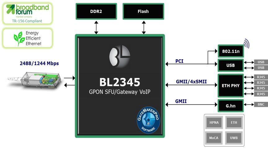 This is a Application Diagram of BL2345